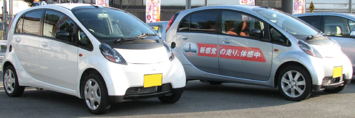 Silver and white "i"s, Mitsubishi K-car. Silver "i" is for trial run in Japan.